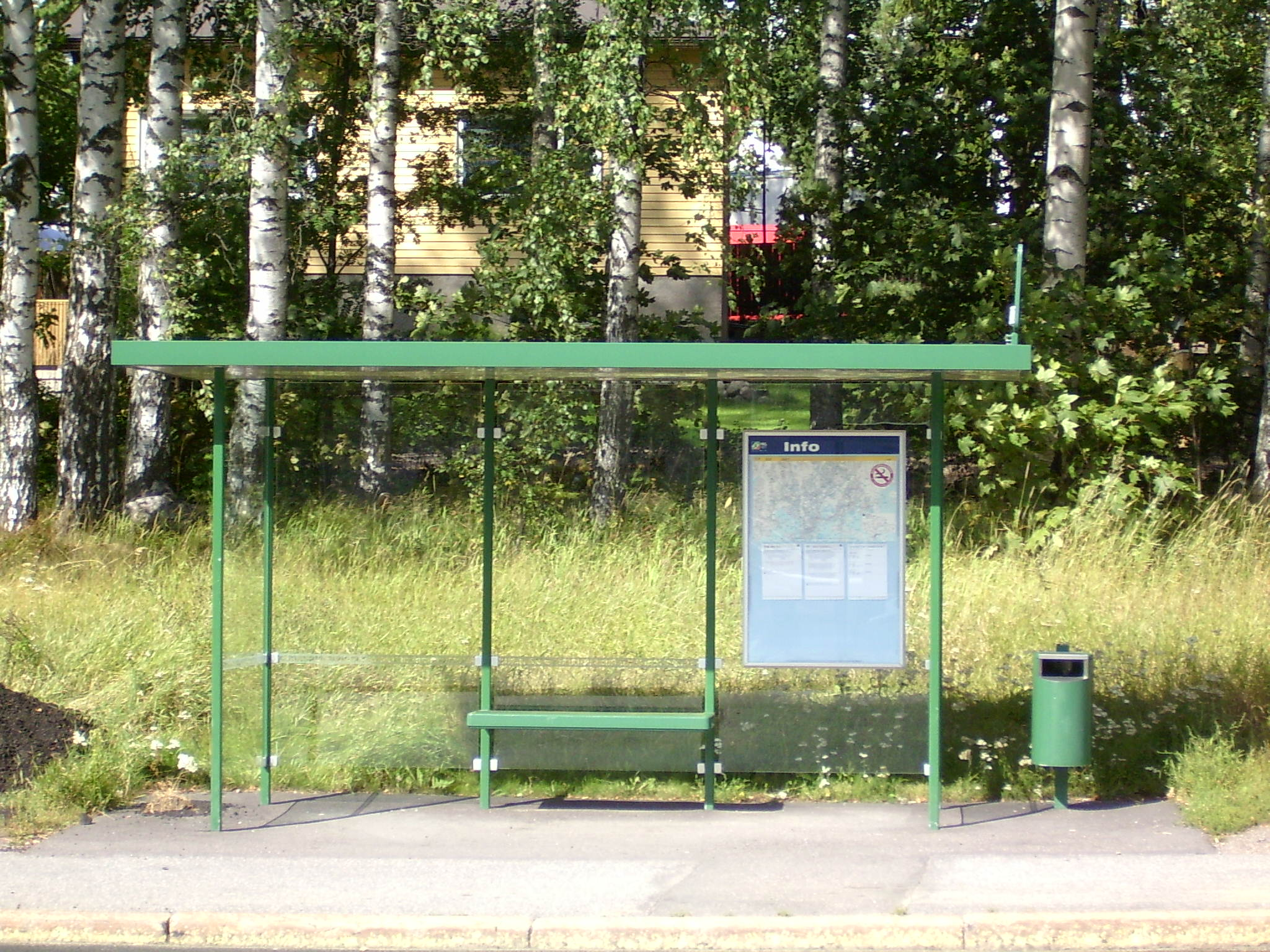 Kaadekuja bus stop in Helsinki (from city centre).